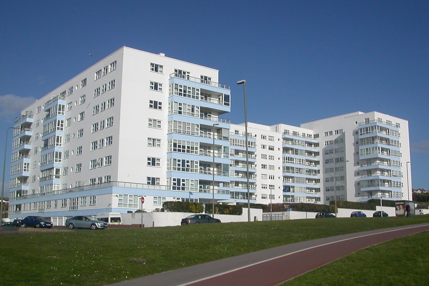 Marine Gate, Marine Parade, Black Rock, City of Brighton and Hove, England. A large block of flats built in 1939 to the design of architects Wimperis, Simpson and Guthrie. It stands at the eastern end of Brighton, overlooking Brighton Marina and Black Rock.